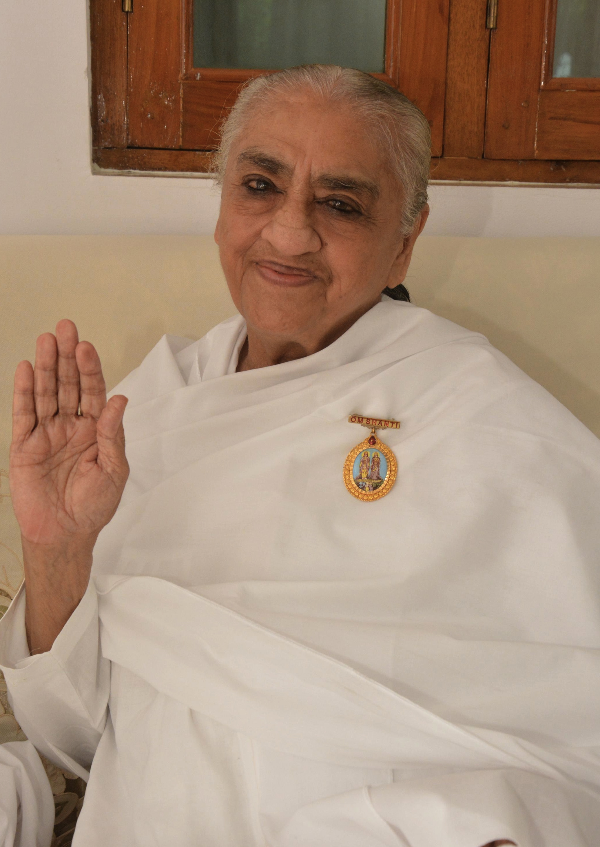 Dadi Gulzar September 2014